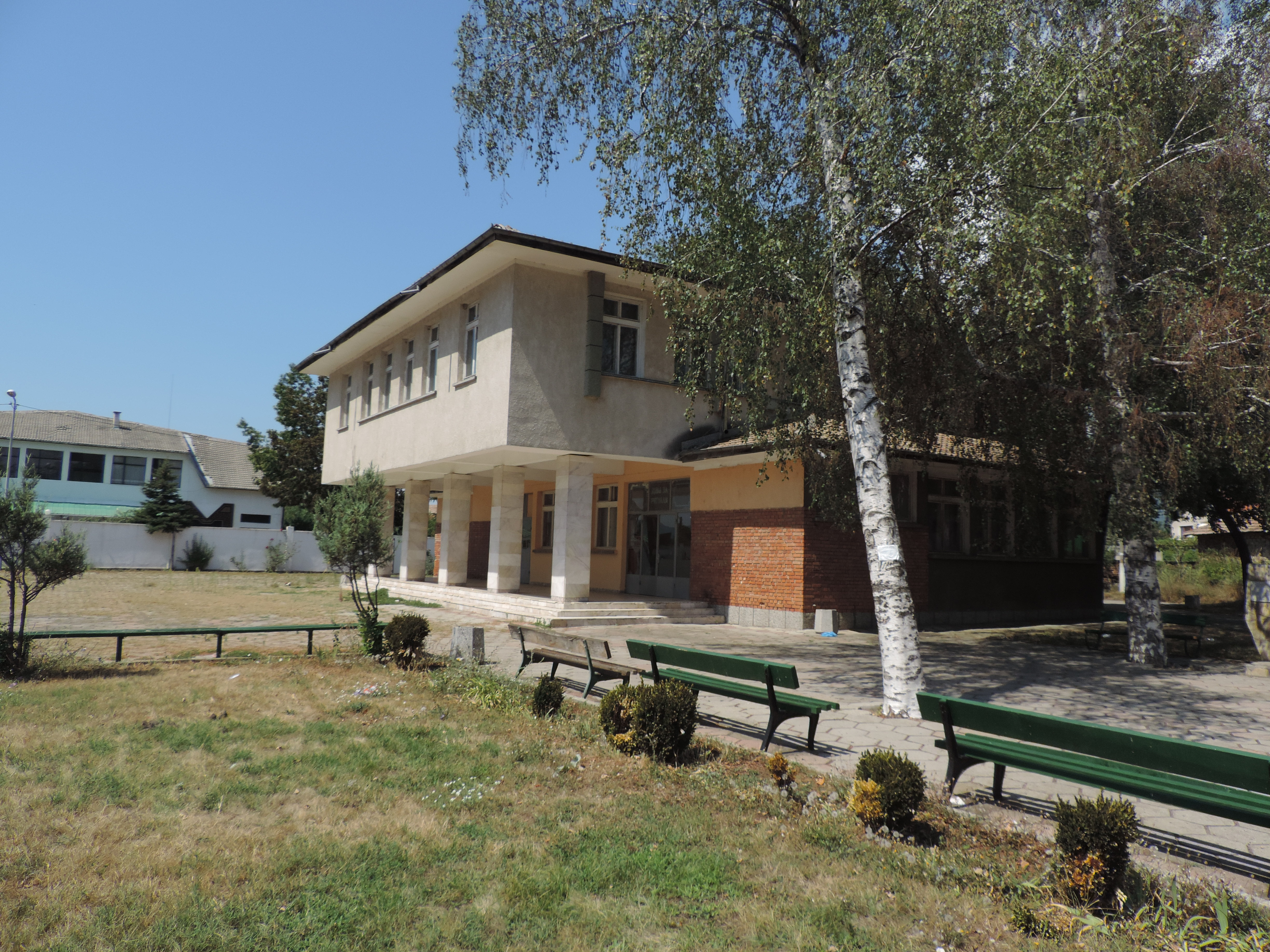 The ritual hall in village Gorno Sahrane, Pavel Banya Municipality, Stara Zagora Province, Bulgaria.